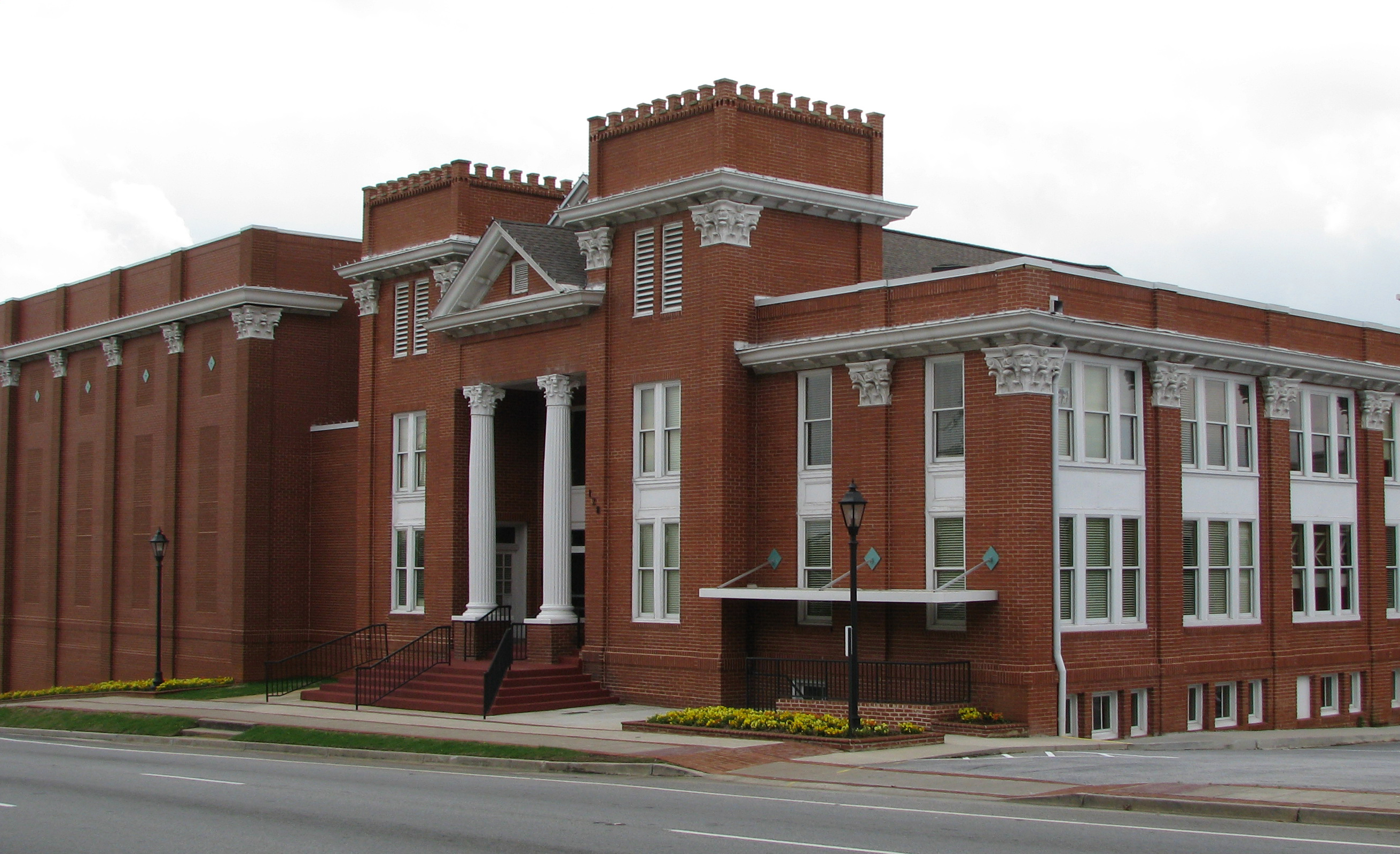 A view of the Aurora Theatre from Pike Street in Lawrenceville Georgia.